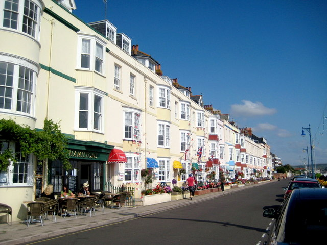 Brunswick Terrace - Weymouth An attractive Georgian terrace which cannot have changed much since it was built and completed in 1827 except for the railings that have disappeared from the low front garden walls of each house. A pleasant place to stay being literally yards away from the beach.